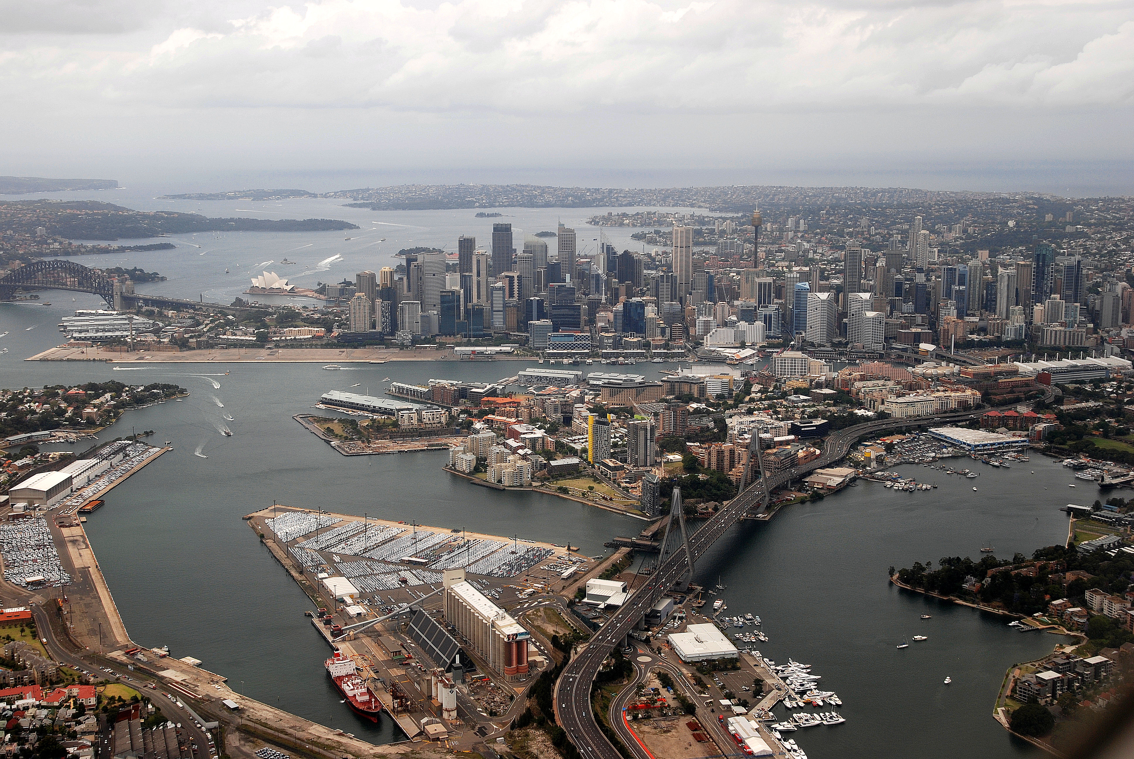 Sydney, Australia